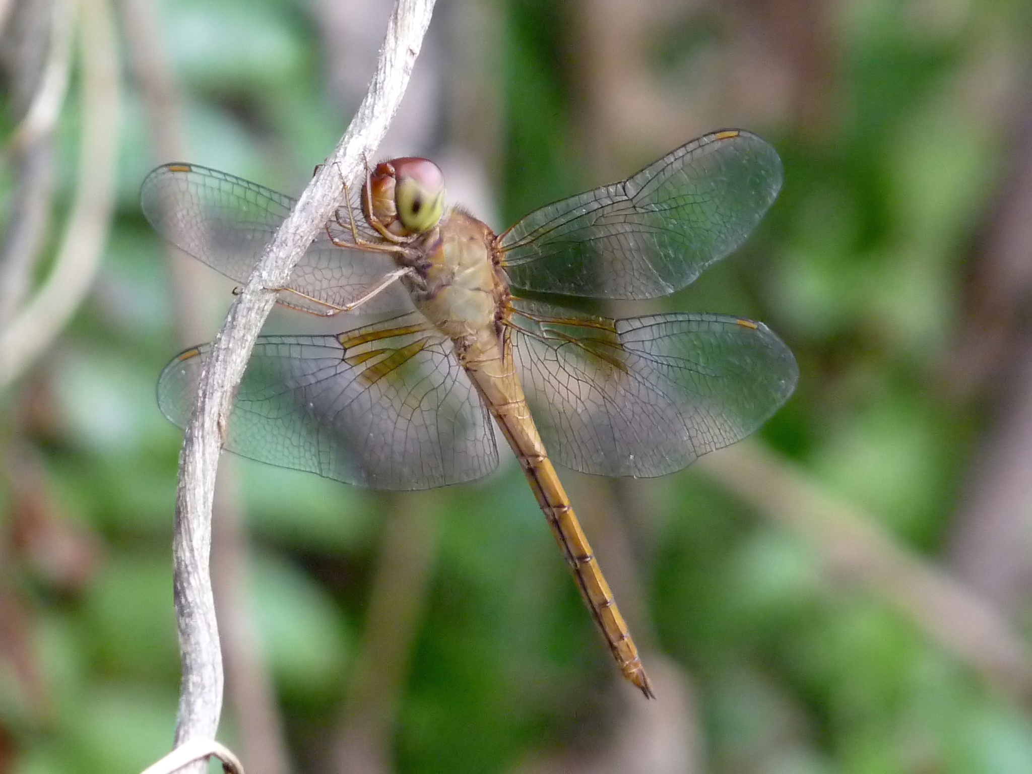 Tholymis tillarga young male Tholymis tillarga, the Coral-tailed Cloudwing, is a medium sized red dragonfly with brown and white hindwing patch. The female lacks the white patches on hindwings compared to the male. A crepuscular dragonfly, active at the time of sunset and sometimes at sunrise. This fast flying dragonfly is very difficult to follow. During midday, however, it will hang itself vertically and inactively under the leaf at shady habitats. This is the best time to take some good shots of this guy. It is almost impossible to approach them from front; this is a stretched out from behind shot and he flew away instantly when a bit of me fell into his eyes. :) Taken at Kadavoor, Kerala, India.